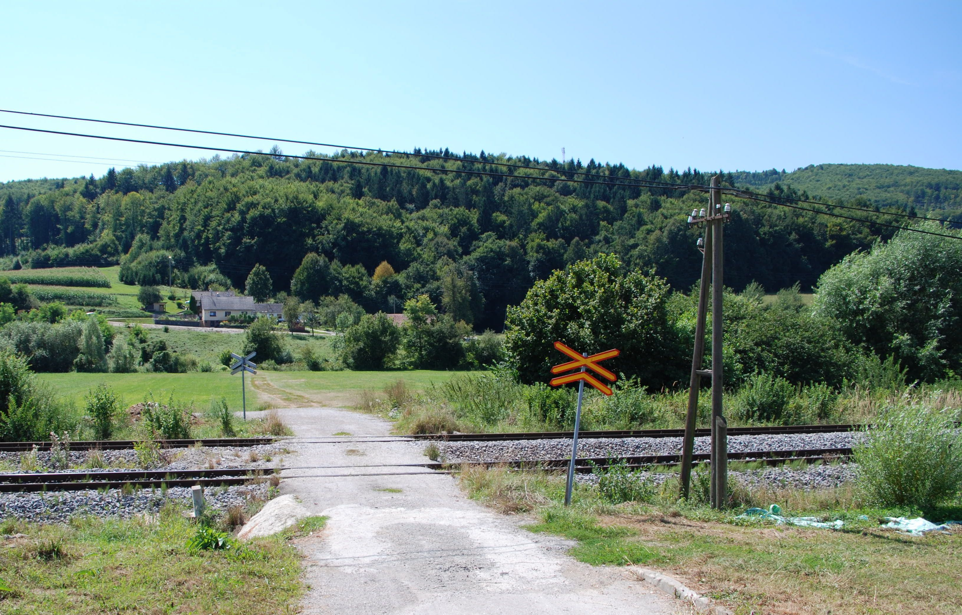 A railroad crossing in Trebnje (next to the Špar store).